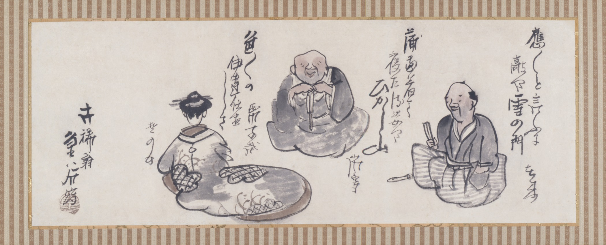 Japan, late 18th-early 19th century Paintings; scrolls Short handscroll mounted on a panel; ink and light color on paper Image: 11 1/8 x 29 7/8 in. (28.25 x 75.88 cm); Framed: 15 x 39 7/8 in. (38.1 x 101.28 cm) Gift of George and Lillian Kuwayama (AC1998.236.1) Japanese Art